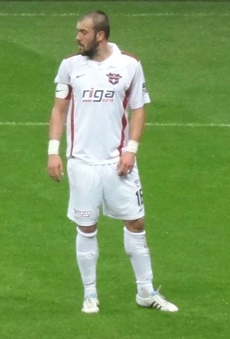 Serdar @ GS match